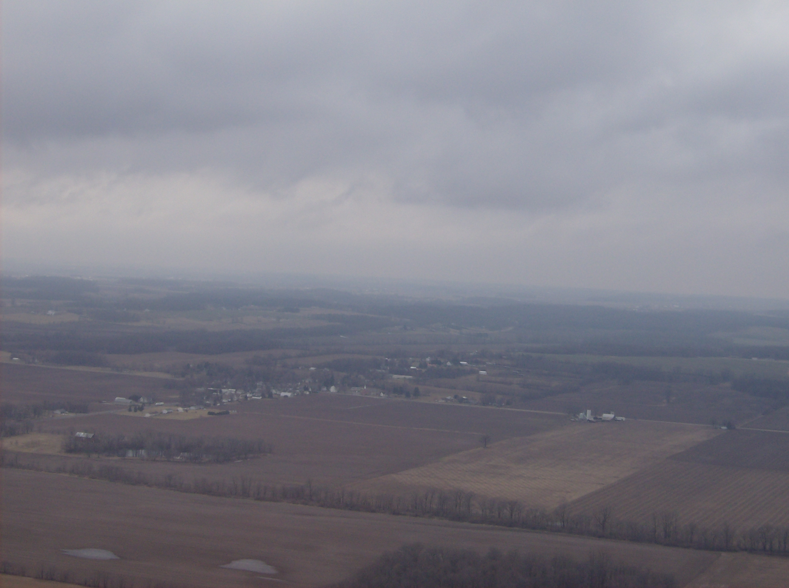 Countryside in Mad River Township, Champaign County, Ohio, United States, with the unincorporated community of Westville in view. Picture taken from Diamond Eclipse light airplane at an altitude of 1,900 feet MSL at an bearing of approximately 270º.